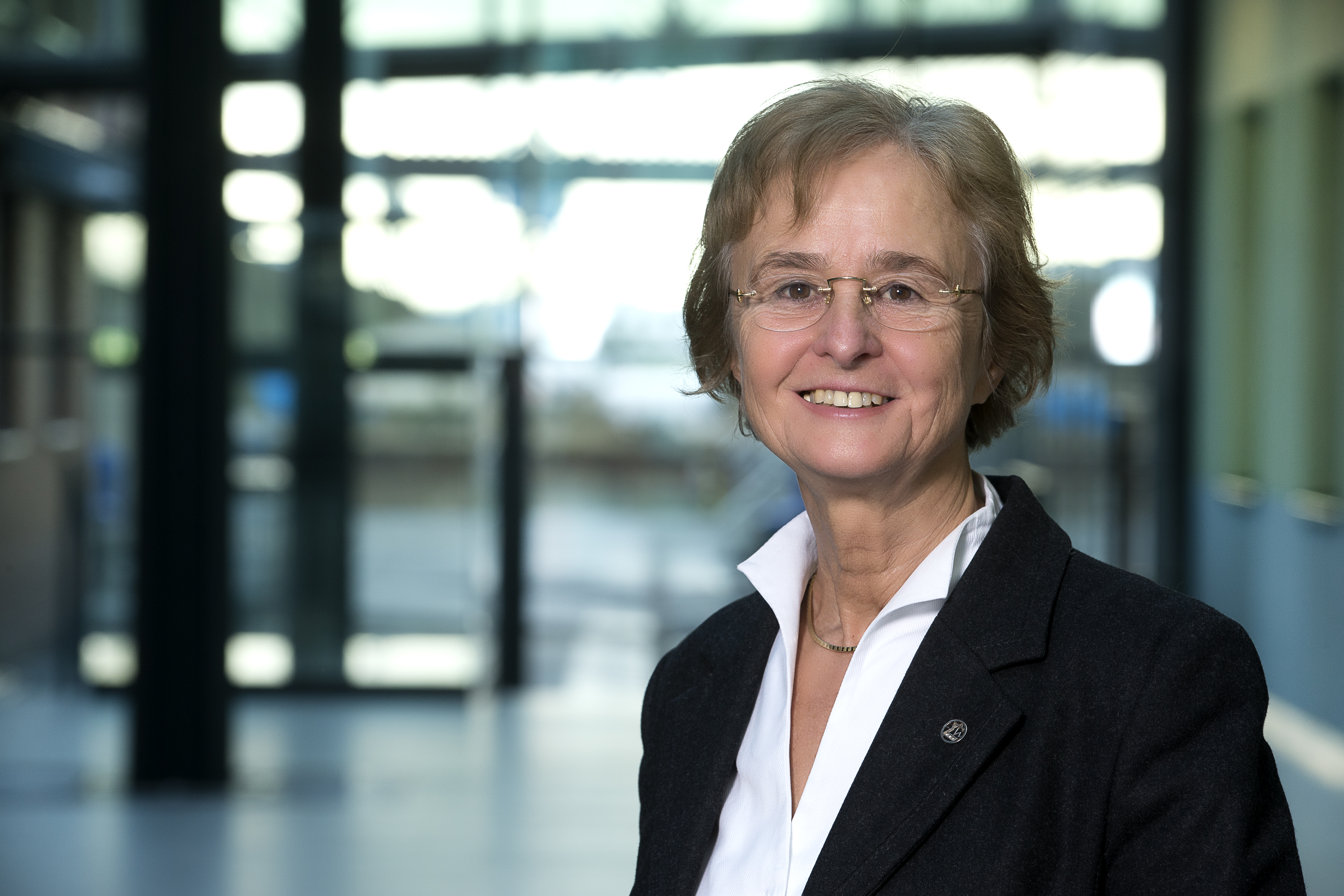 Portrait of Prof. Dr. Karin Lochte, scientific director of the Alfred Wegener Institute in Bremerhaven